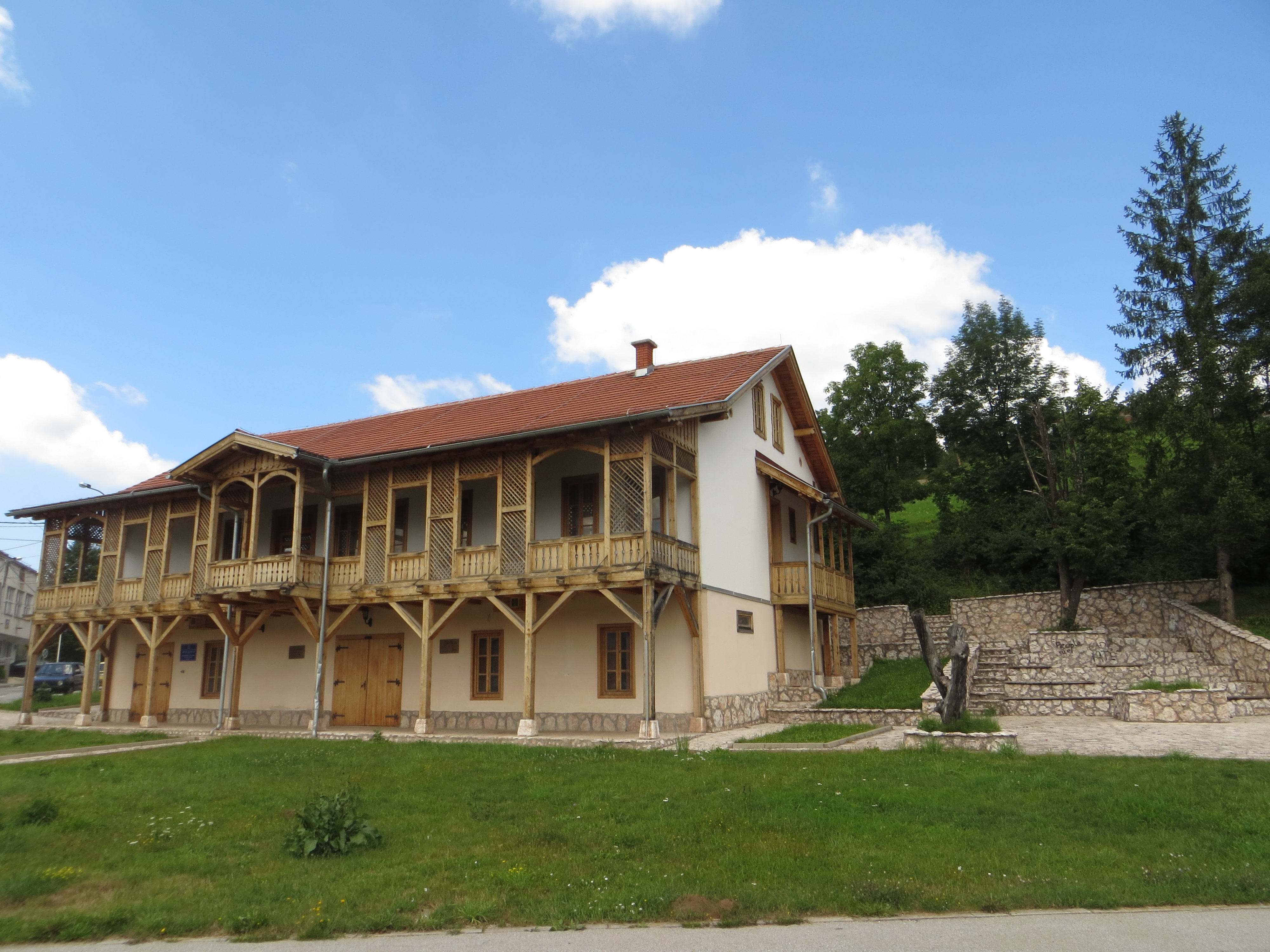 Cekovića House, Pale was home for an old Serbian family built at the start of the XX century